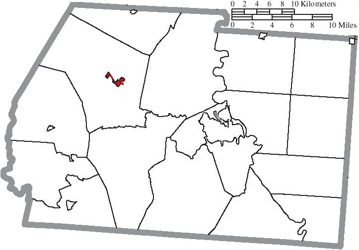 Map of the municipal and township boundaries of Ross County, Ohio, United States, as of the 2000 census, with the location of the village of Frankfort highlighted. Township borders are shown only in unincorporated areas in order to differentiate incorporated and unincorporated areas more clearly.